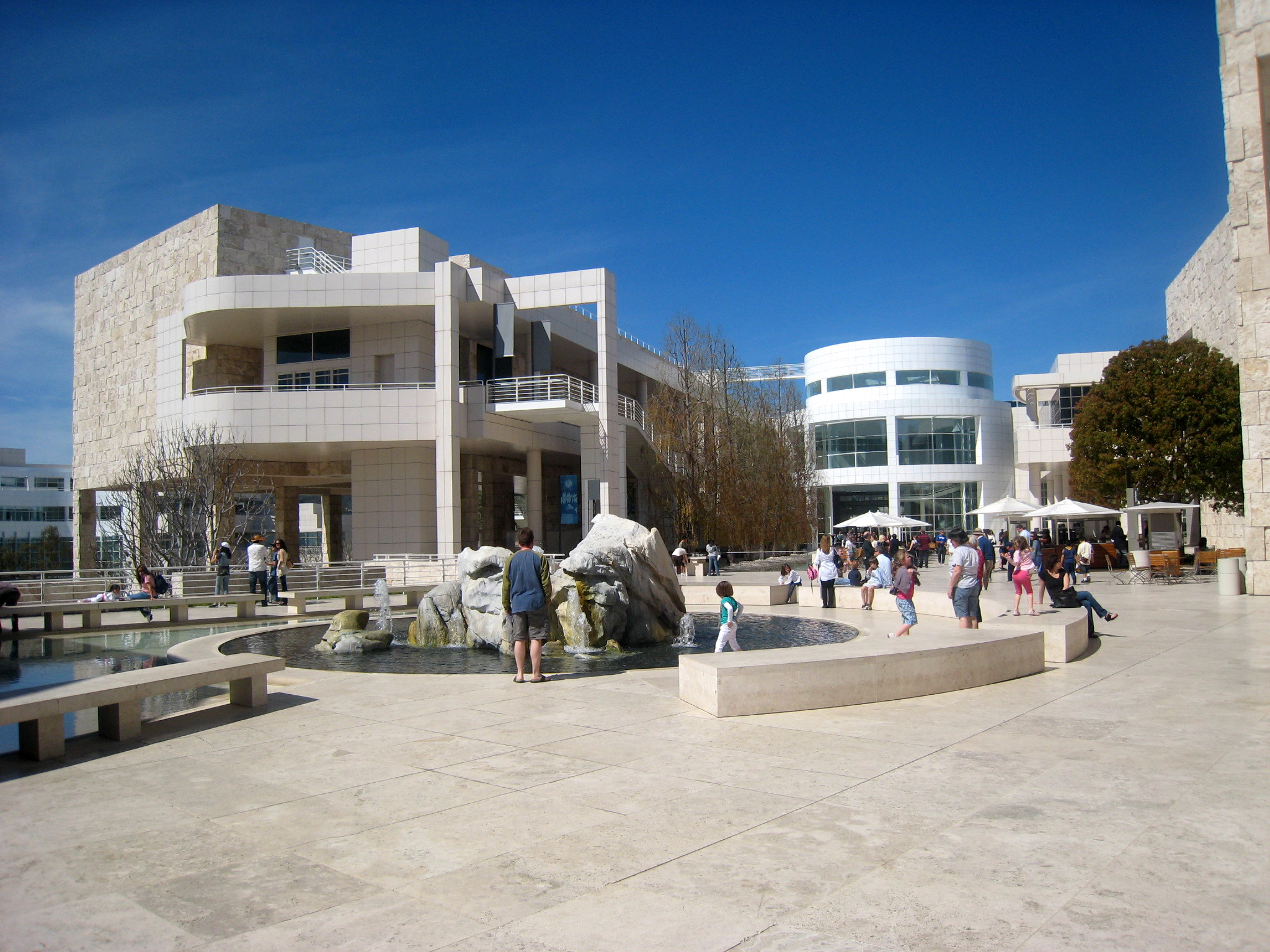 Getty Center in Brentwood, Los Angeles.